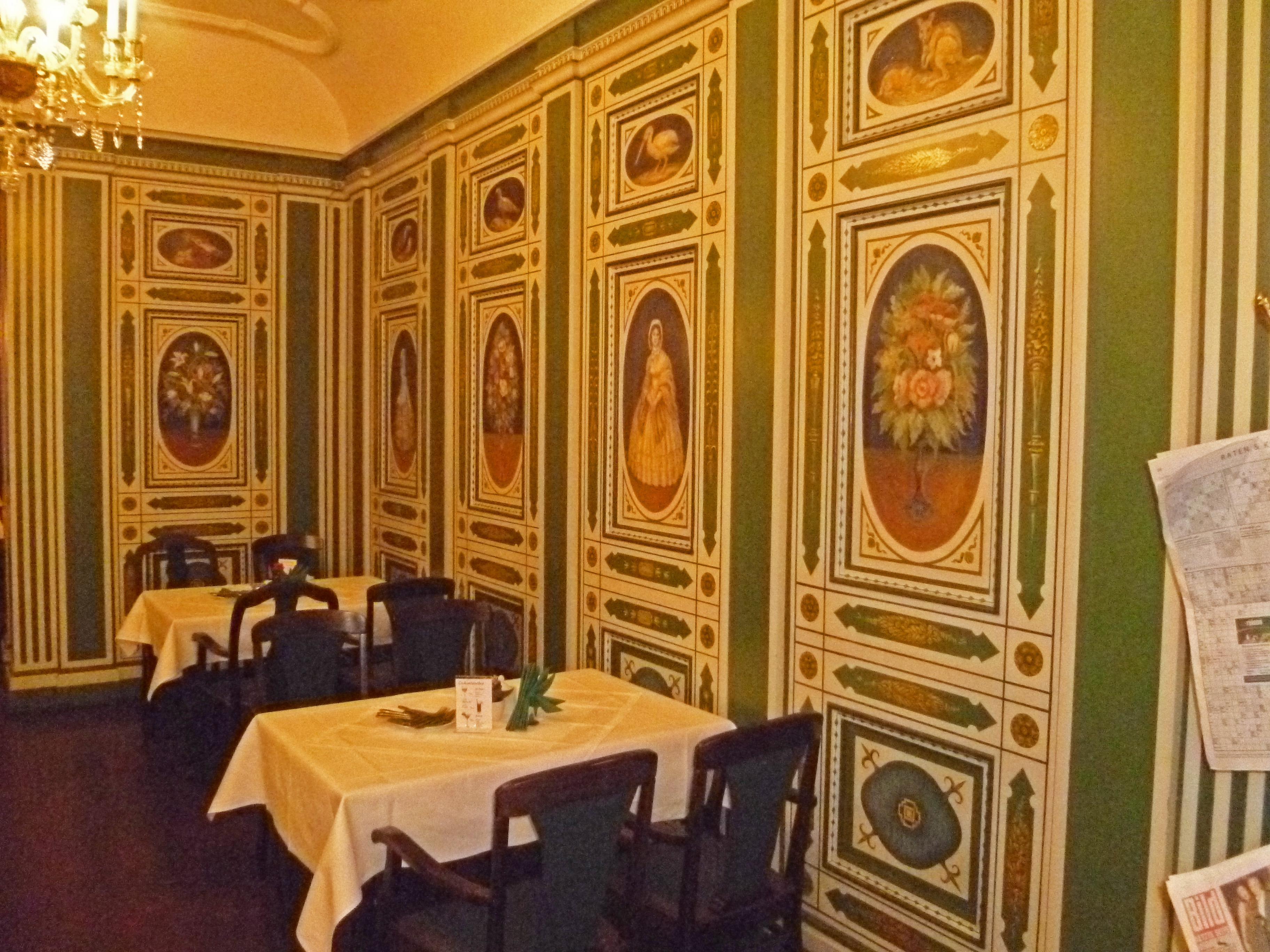 View inside the restaurant of the Italienisches Dörfchen, Dresden, Germany